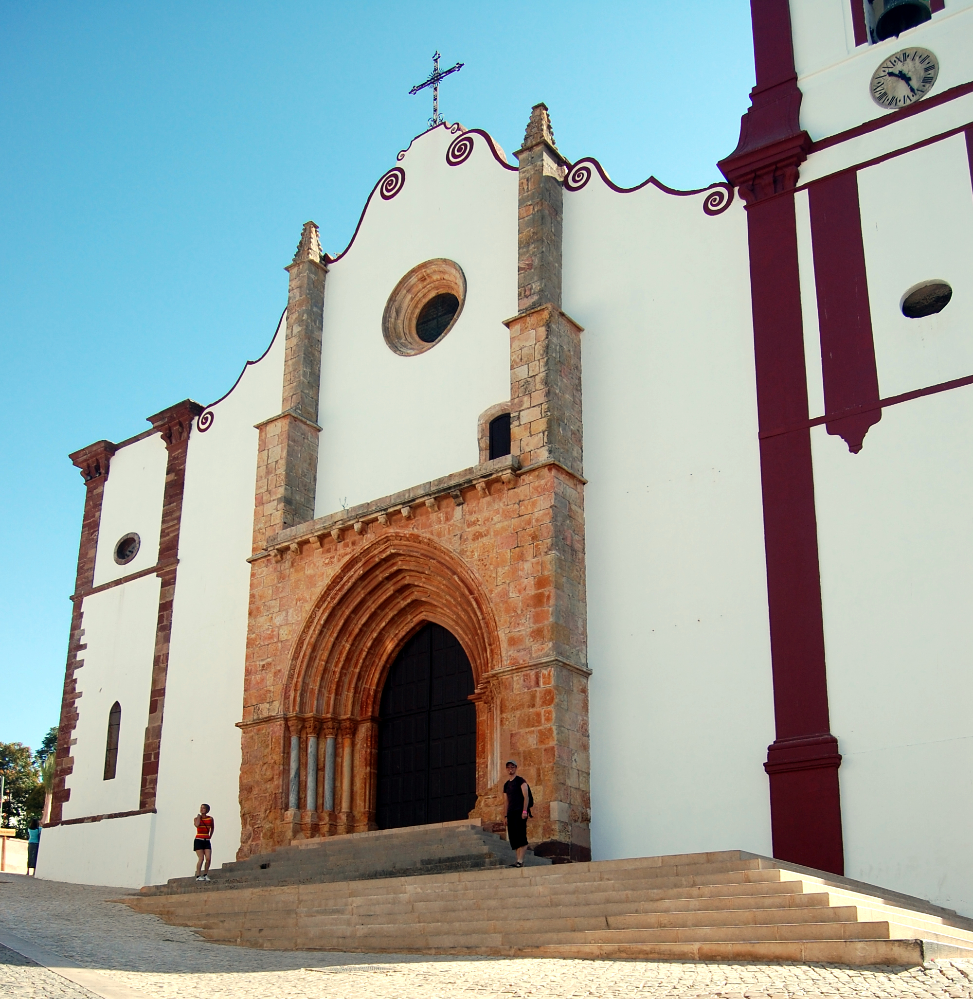 Baroque facade with archivolted portal — Silves Cathedral in Portugal.